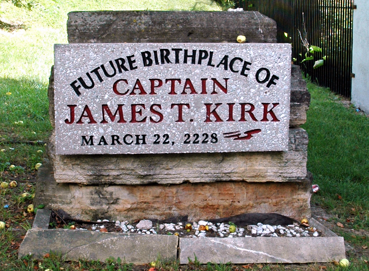 A picture of the plaque at Riverside, Iowa, reading "Future Birthplace of Captain James T. Kirk March 22, 2228" (instead of 2233).